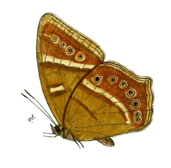 Rangbia scanda = Lethe scanda